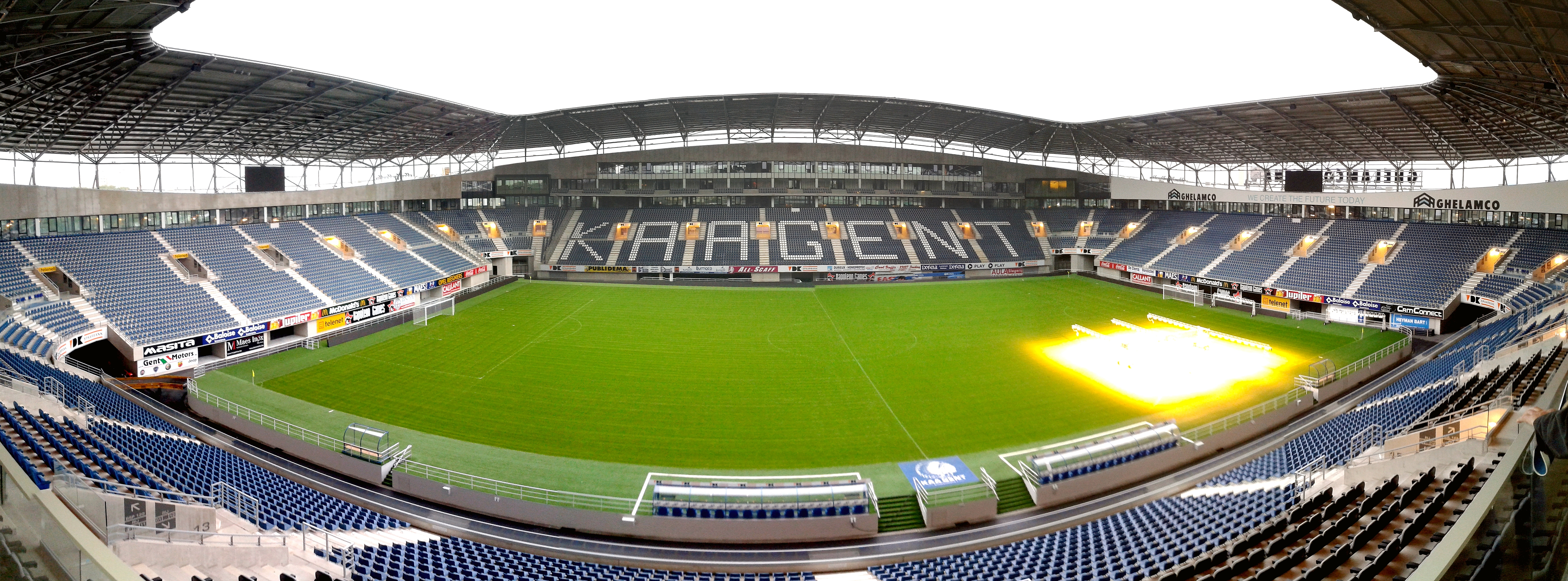 Ghelamco Arena, home grounds of Belgian Football Club AA Gent. Composed panoramic view from skybox 1 on a day between plays. Note the rolling grass illumination system in the near right hand side corner.